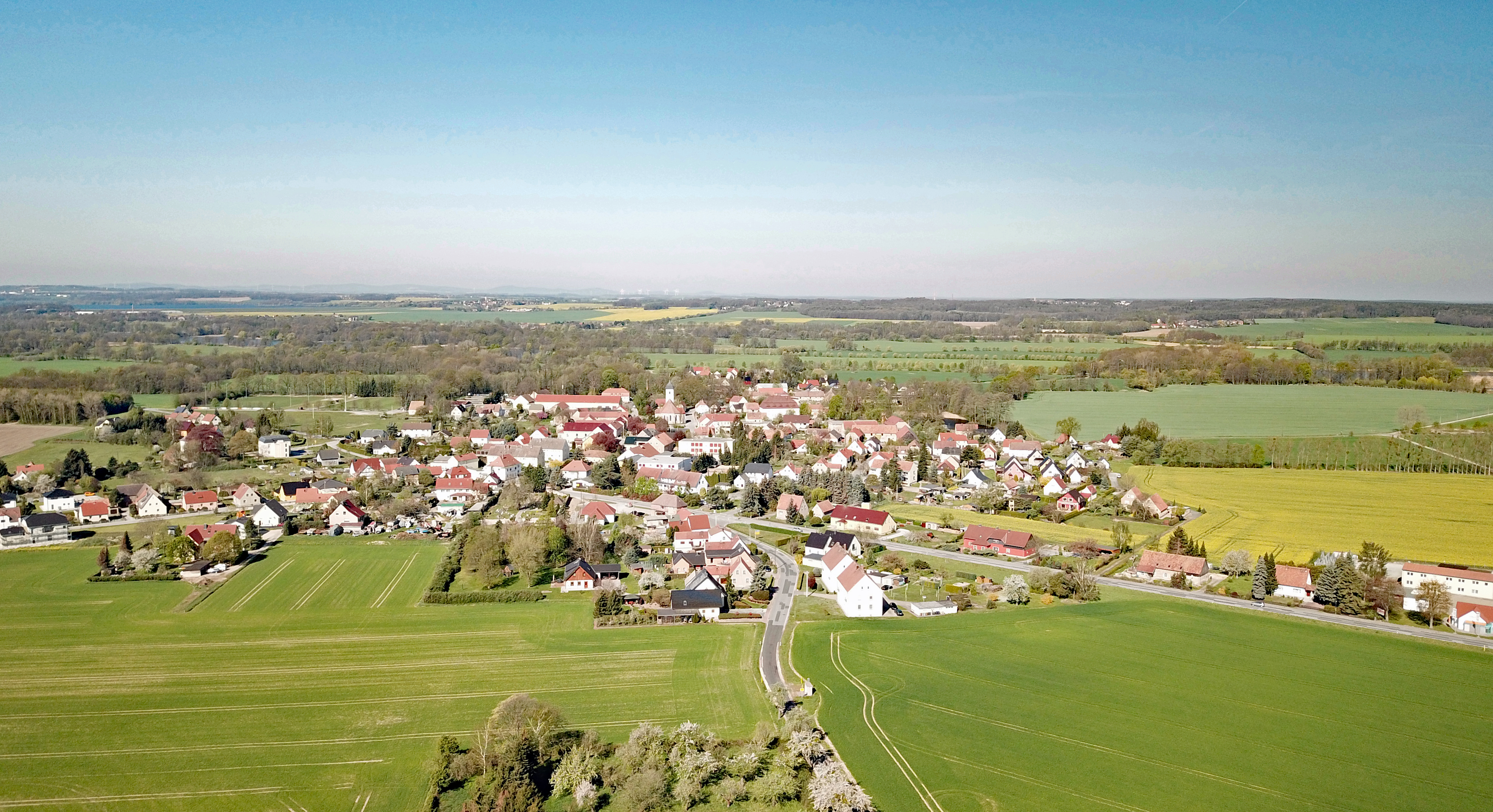 Malschwitz, Saxony, Germany Hornjoserbsce: Powětrowy wobraz Malešec z wuchoda Dieses Foto wurde mit einem Quadcopter innerhalb der RMZ des Flugplatzes EDAB aufgenommen. Der Flugleiter wurde am Aufnahmetag telephonisch über Ort und Zeit informiert und hat zugestimmt. Der Flug erfolgte auf Grundlage der Allgemeinverfügung der Landesdirektion Sachsen zur Erteilung der Betriebserlaubnis für unbemannte Luftfahrtsysteme und Flugmodelle gemäß § 21a LuftVO und Zulassung von Ausnahmen von Betriebsverboten gemäß § 21b LuftVO für den Freistaat Sachsen.